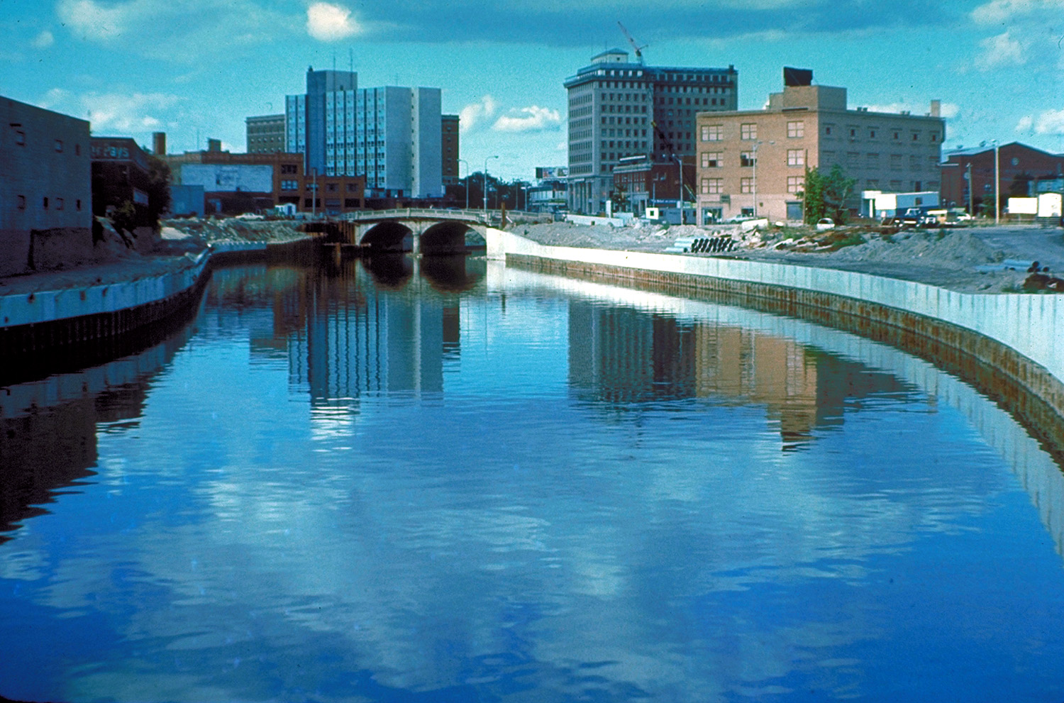 The Flint River in Flint, Michigan, USA, in the late 1970s during a U.S. Army Corps of Engineers flood control project, Taken from approximately halfway between the Grand Traverse Street bridge and Beach-Garland Street bridge, looking east. To the right in the distance is the former IMA Auditorium, later part of AutoWorld, demolished in 1997 to make way for an expansion of UM-Flint. The Northbank Center, to the right of the upper center of the photograph, is also now part of UM-Flint.